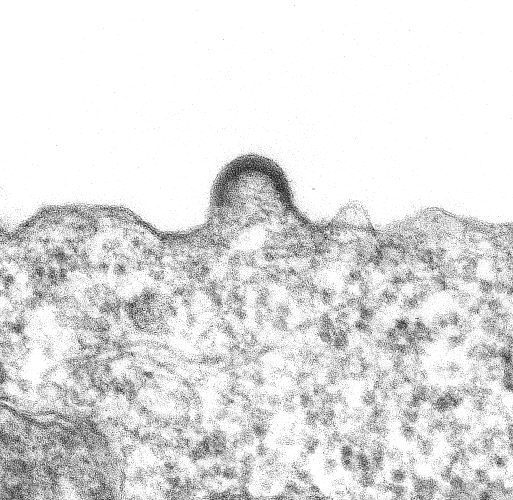 HIV-1 budding from cultured lymphocyte. Transmission electron micrograph.